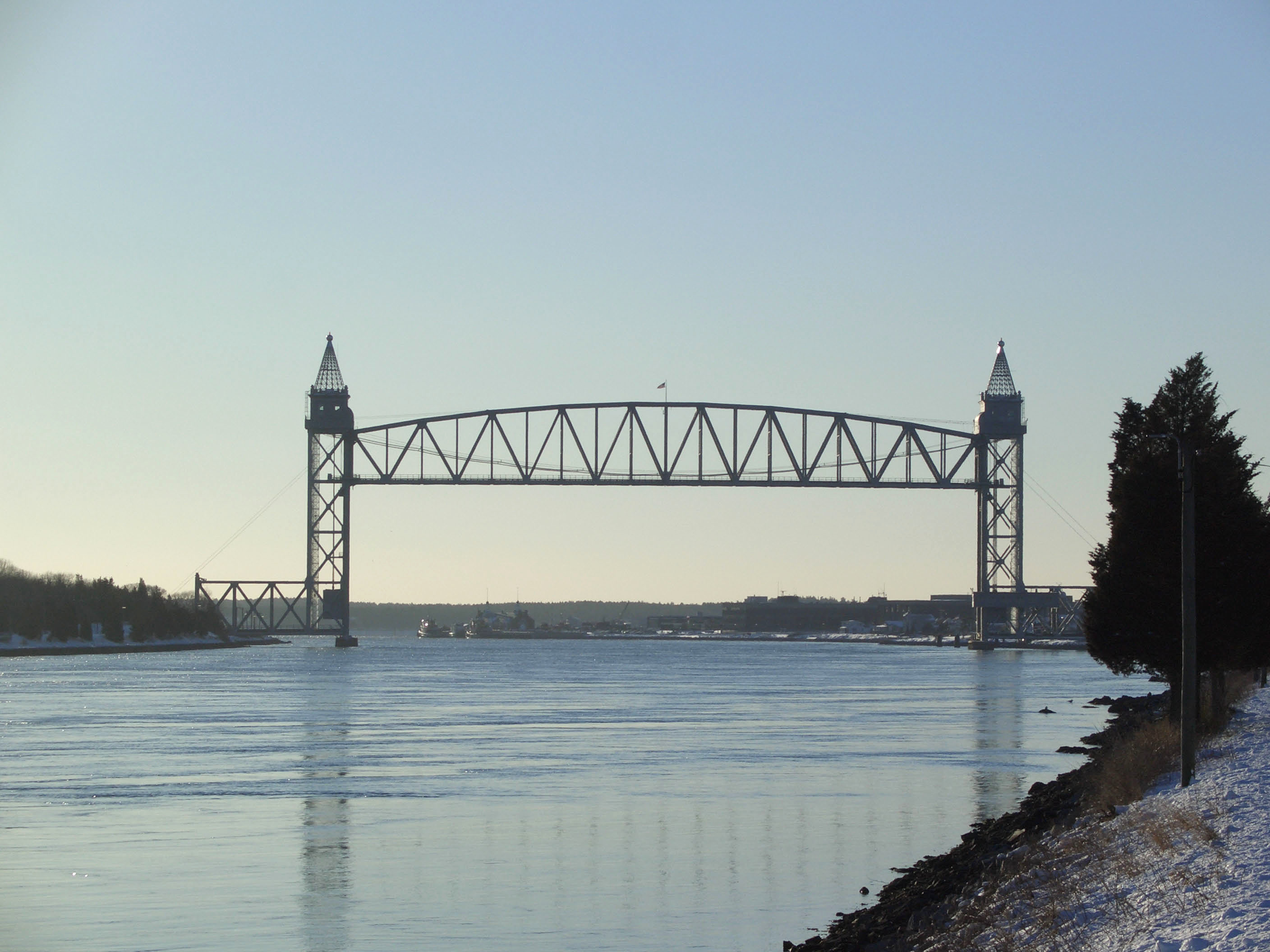 Railroad bridge over Cape Cod Canal, Bourne, Massachusetts, USA.